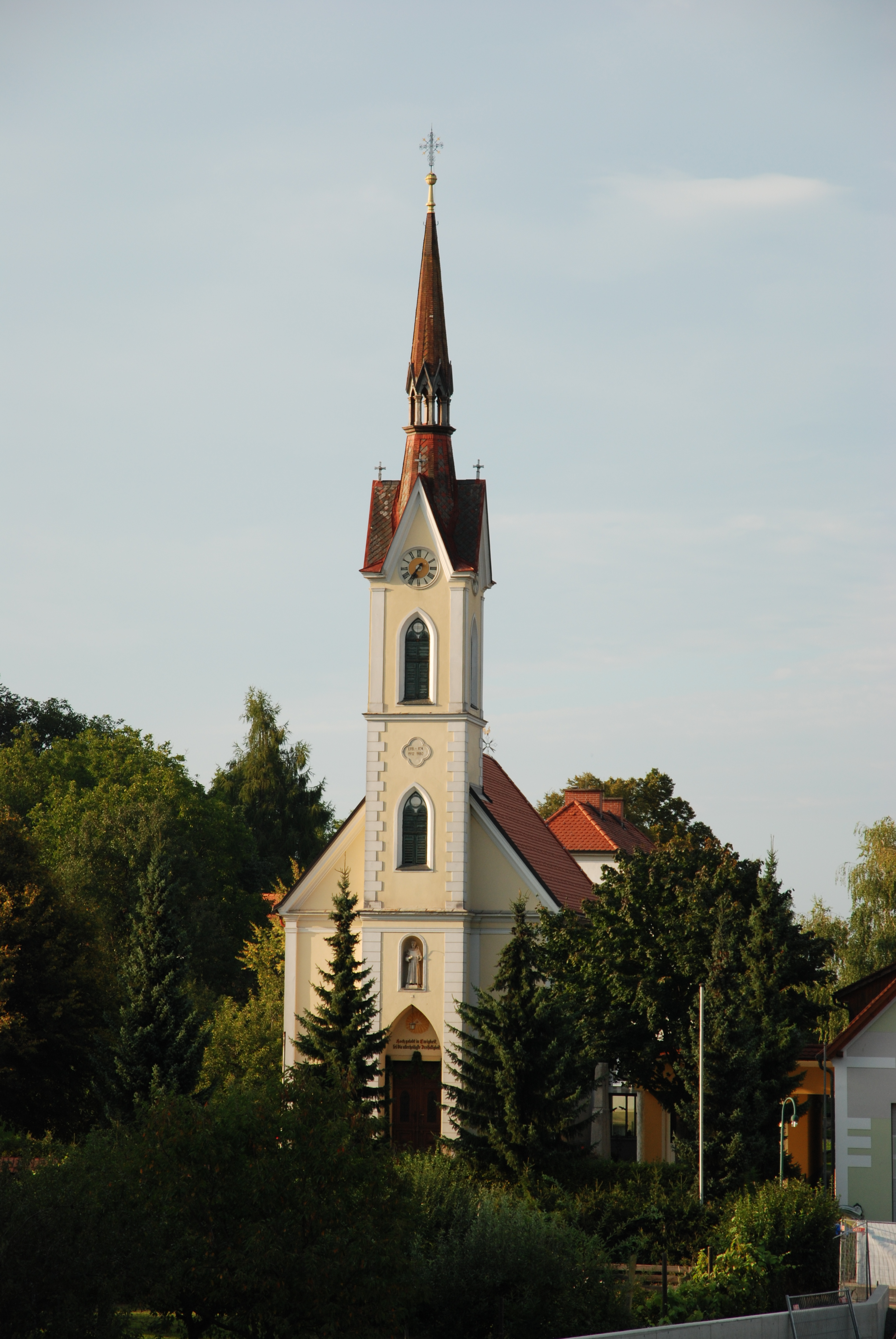 Kirche Dietersdorf am Gnasbach